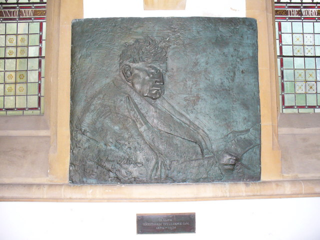 Plaque of the composer Ralph Vaughan Williams who lived in Dorking and was heavily involved with the local Leith Hill Musical Festival. This plaque is on the parish church porch interior east wall.